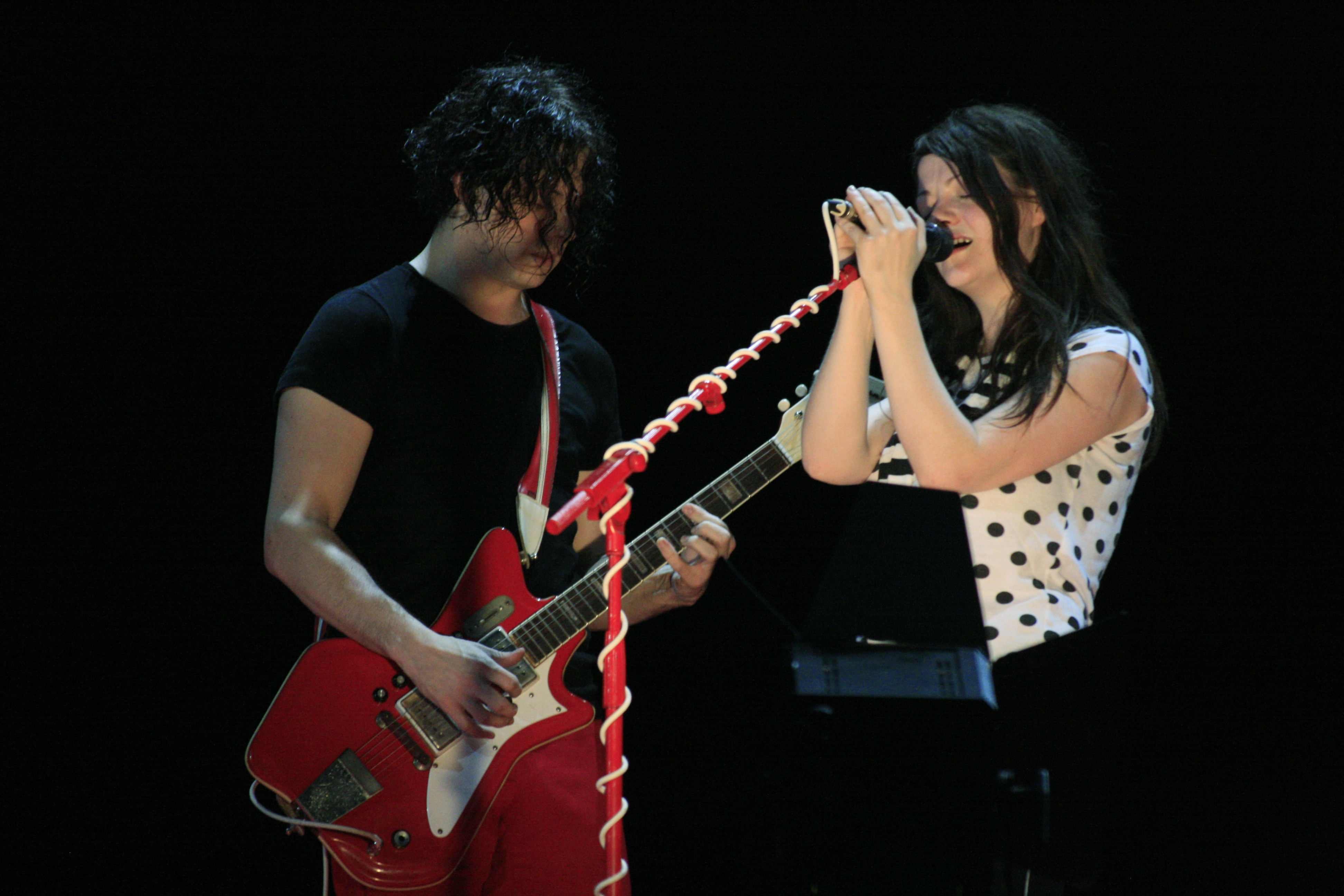 White Stripes